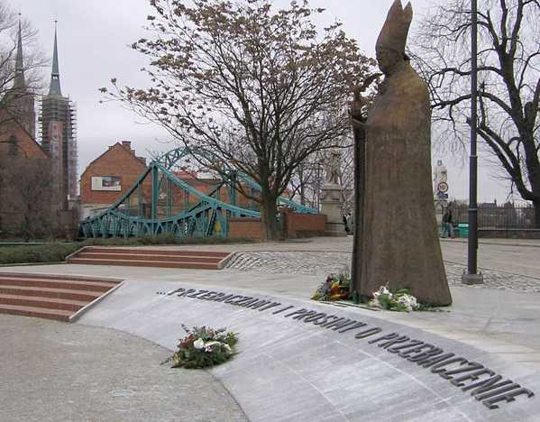 Wrocław, Poland, Wyspa Piasek - Sand Island: memorial of cardinal Bolesław Kominek erected in December 3rd 2005.